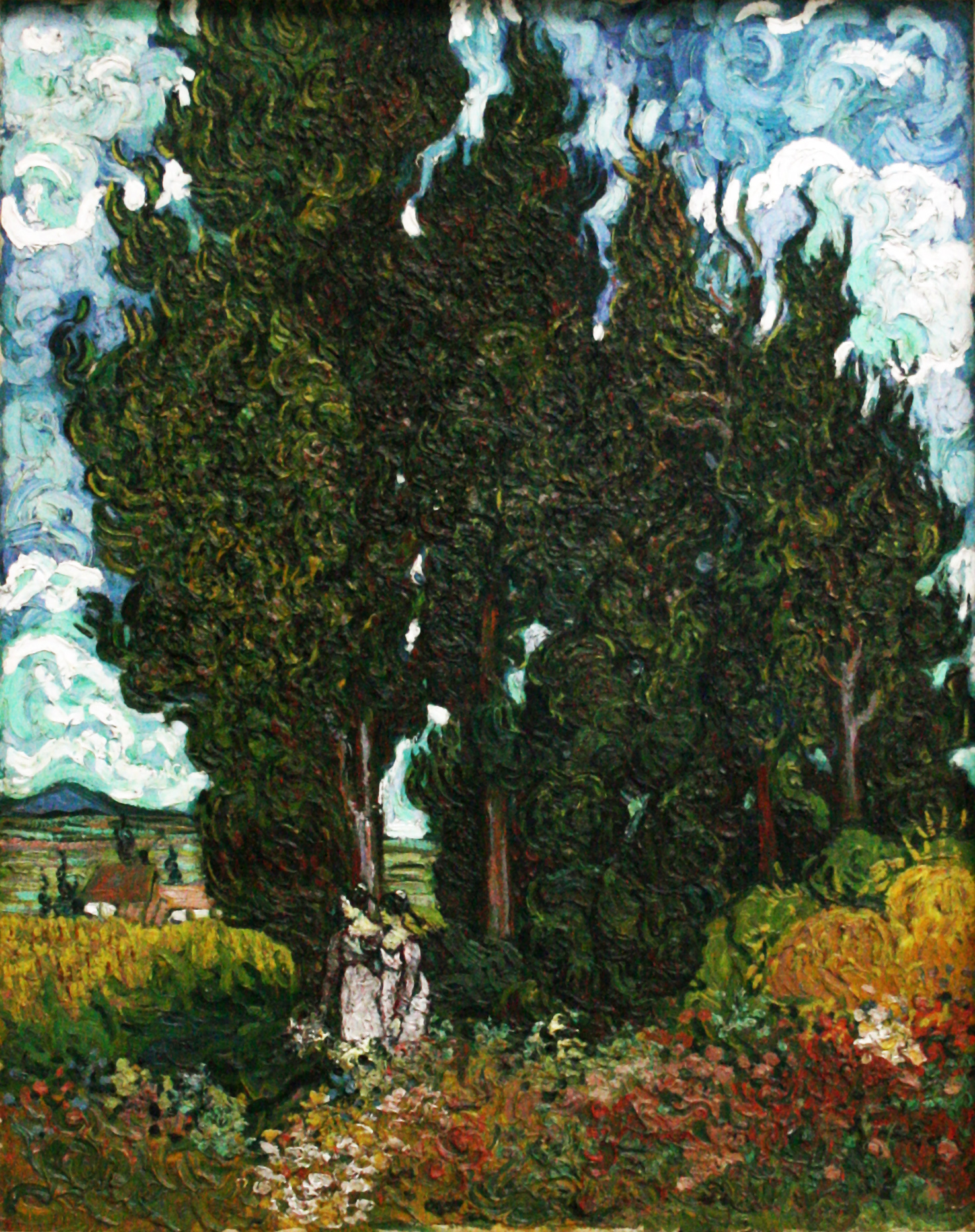 Cypresses with two figures; nl: Cipressen met twee figuren